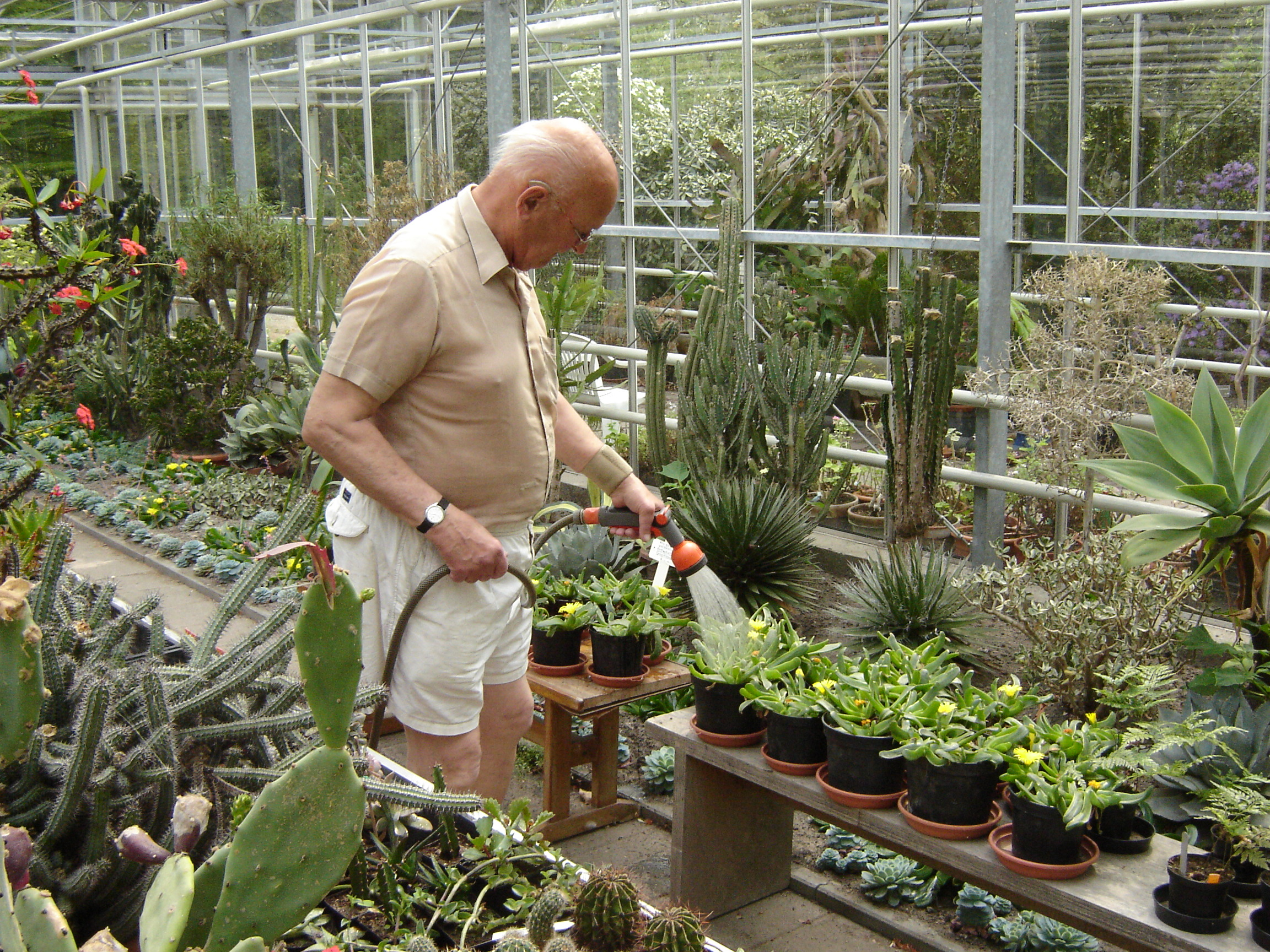 Dick van Hoey Smith in his greenhouse with succulents